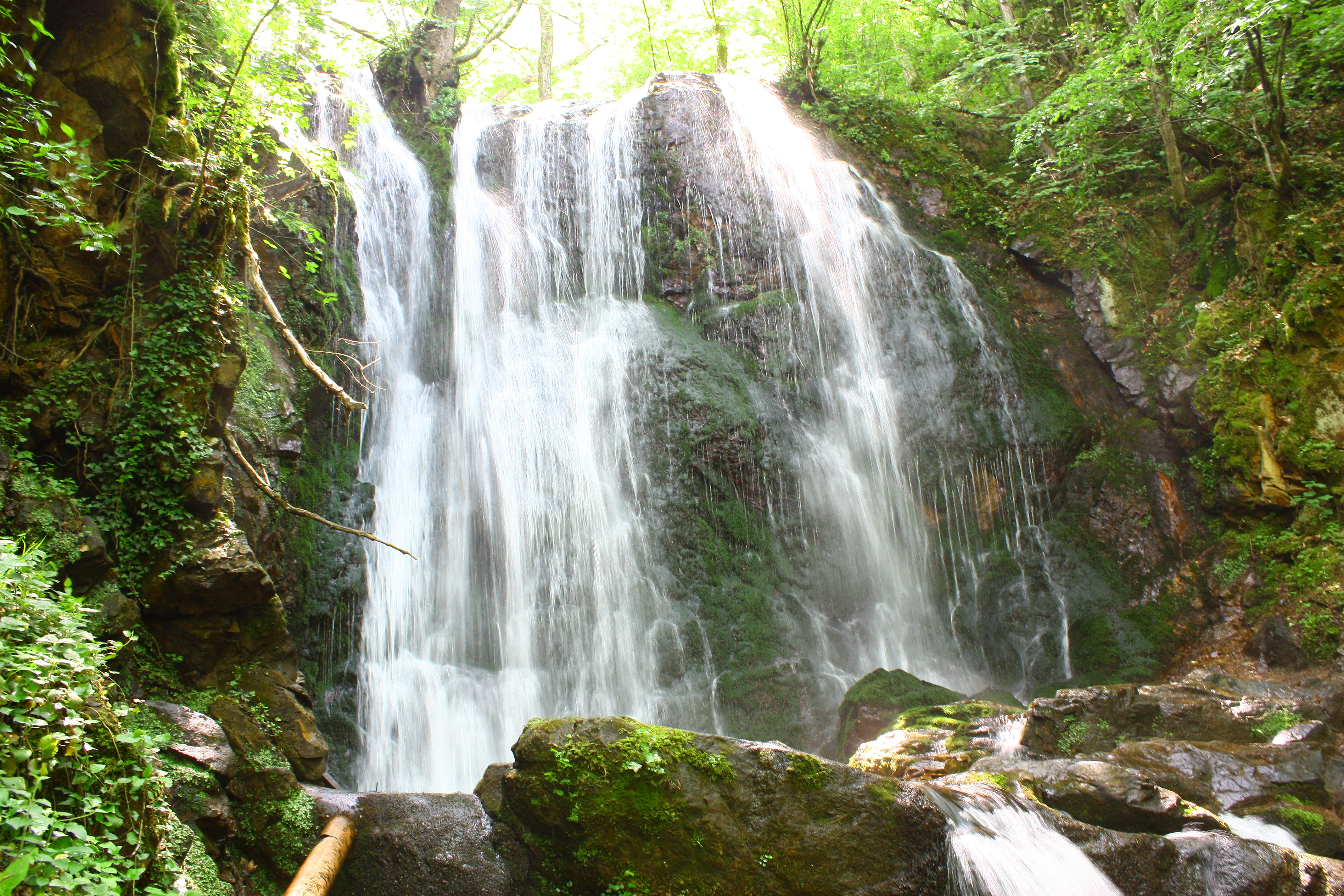 Kolešino Waterfall on Belasica Mountain, Macedonia